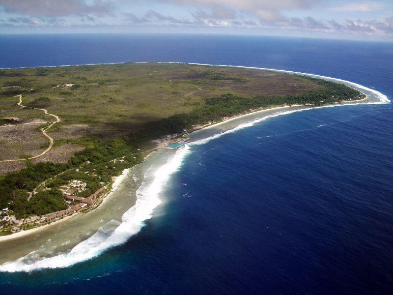 Aerial photo showing the east side of the island of Nauru, on the shore wee can see the Menen Hotel and the Anibare port